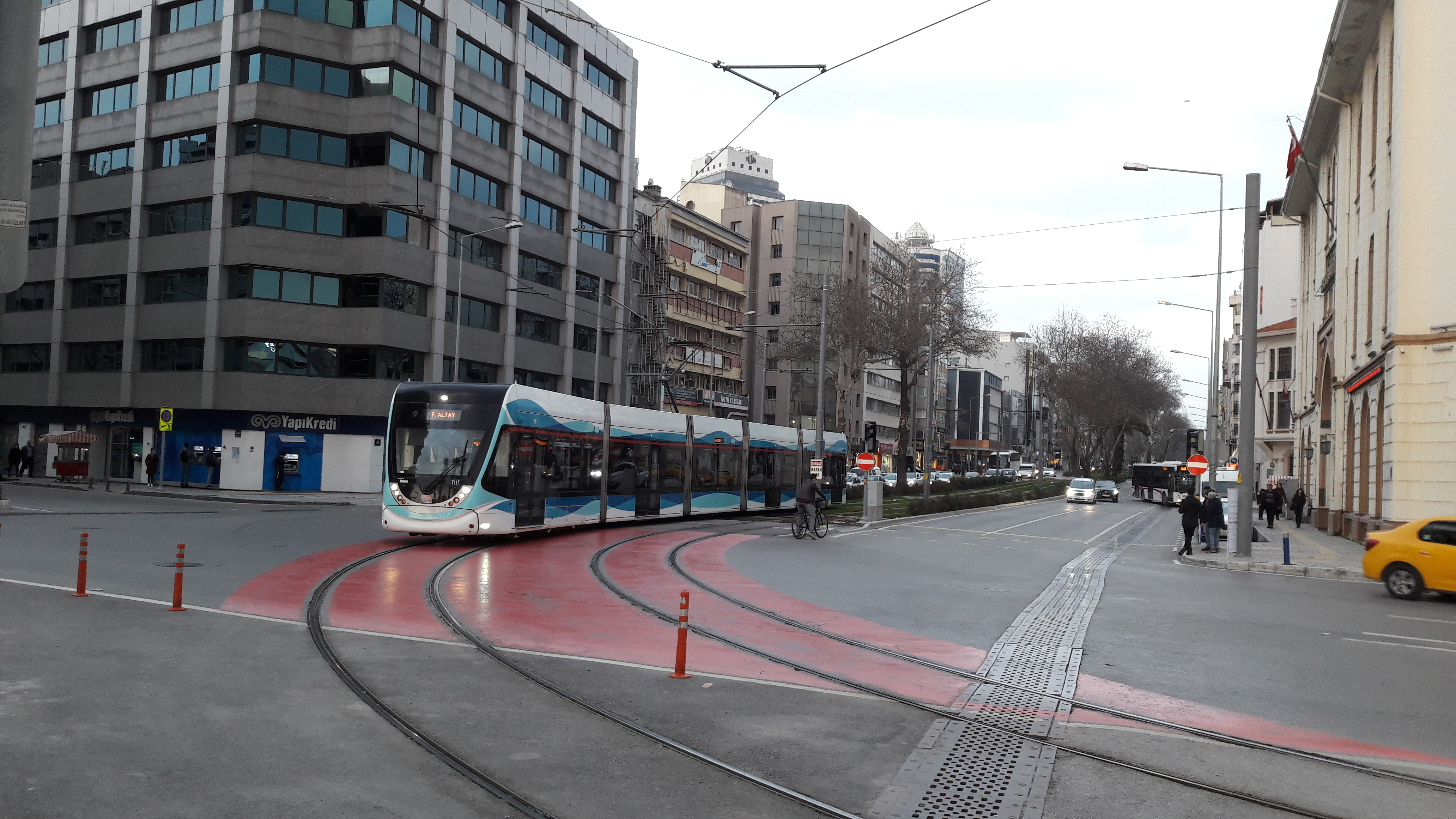 A Fahrettin Altay-bound (westbound) tram on the Konak Tram line turns onto Cumhuriyet Boulevard from Gazi Boulevard.